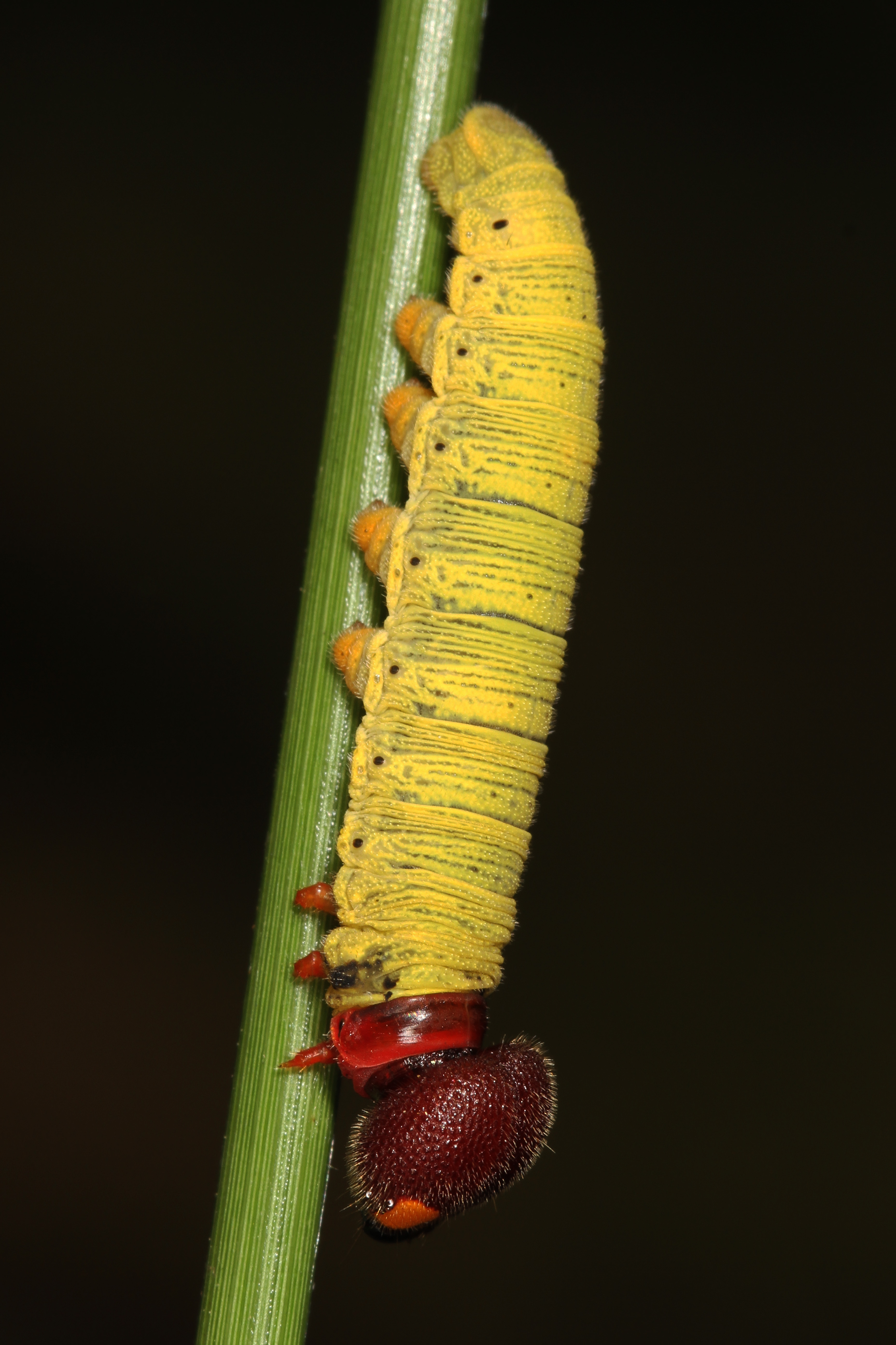 Silver-spotted Skipper caterpillar - Epargyreus clarus, Julie Metz Wetlands, Woodbridge, Virginia